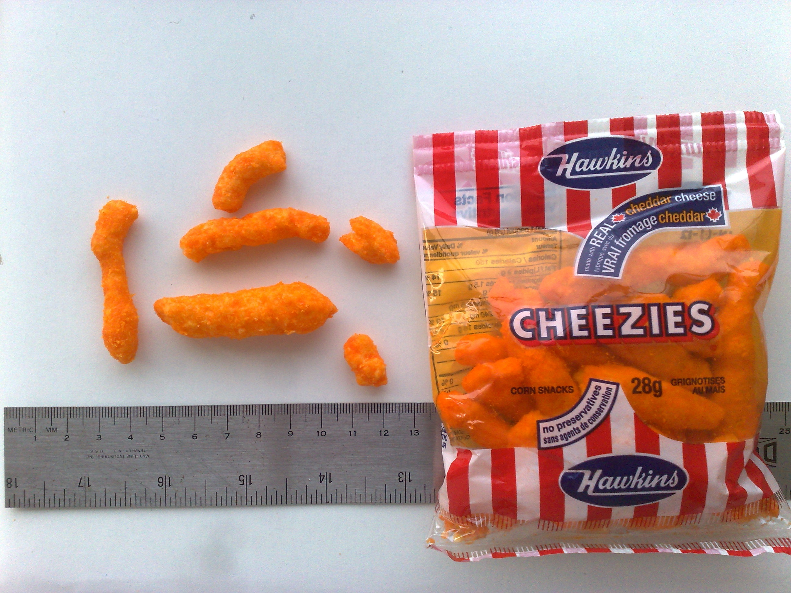 Photo of a 28g Canadian retail package of W. T. Hawkins Cheezies (c. late 2011). Also shown are representative samples of the snack along with a ruler for scale.